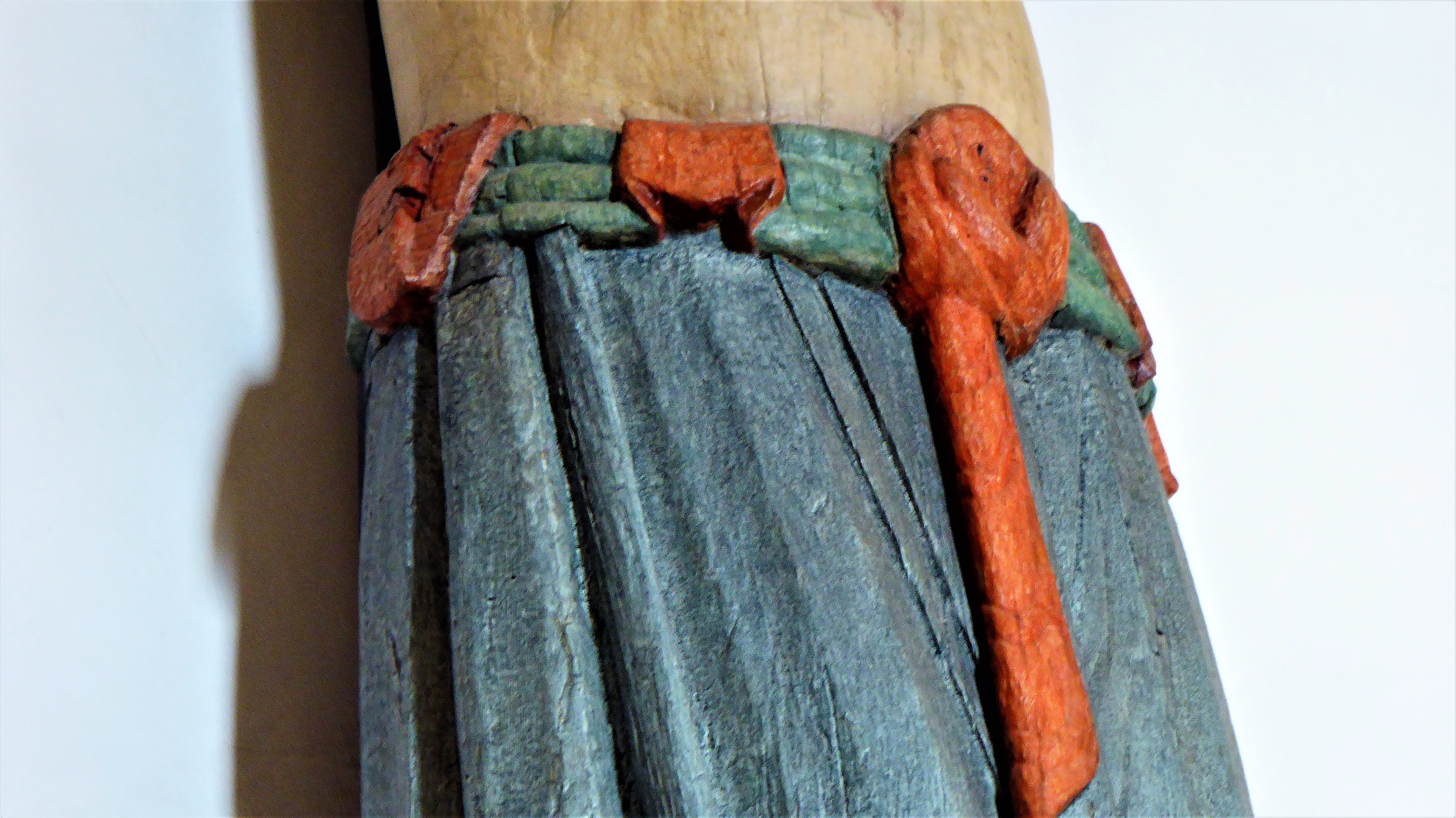 roman loincloth with belt, knobed in front as part, detail of one of Germany´s oldest wooden plastic (wood dating around 970 p.D), found in the little rural church of Schaftlach, Upper BavariaThis is a photograph of an architectural monument.